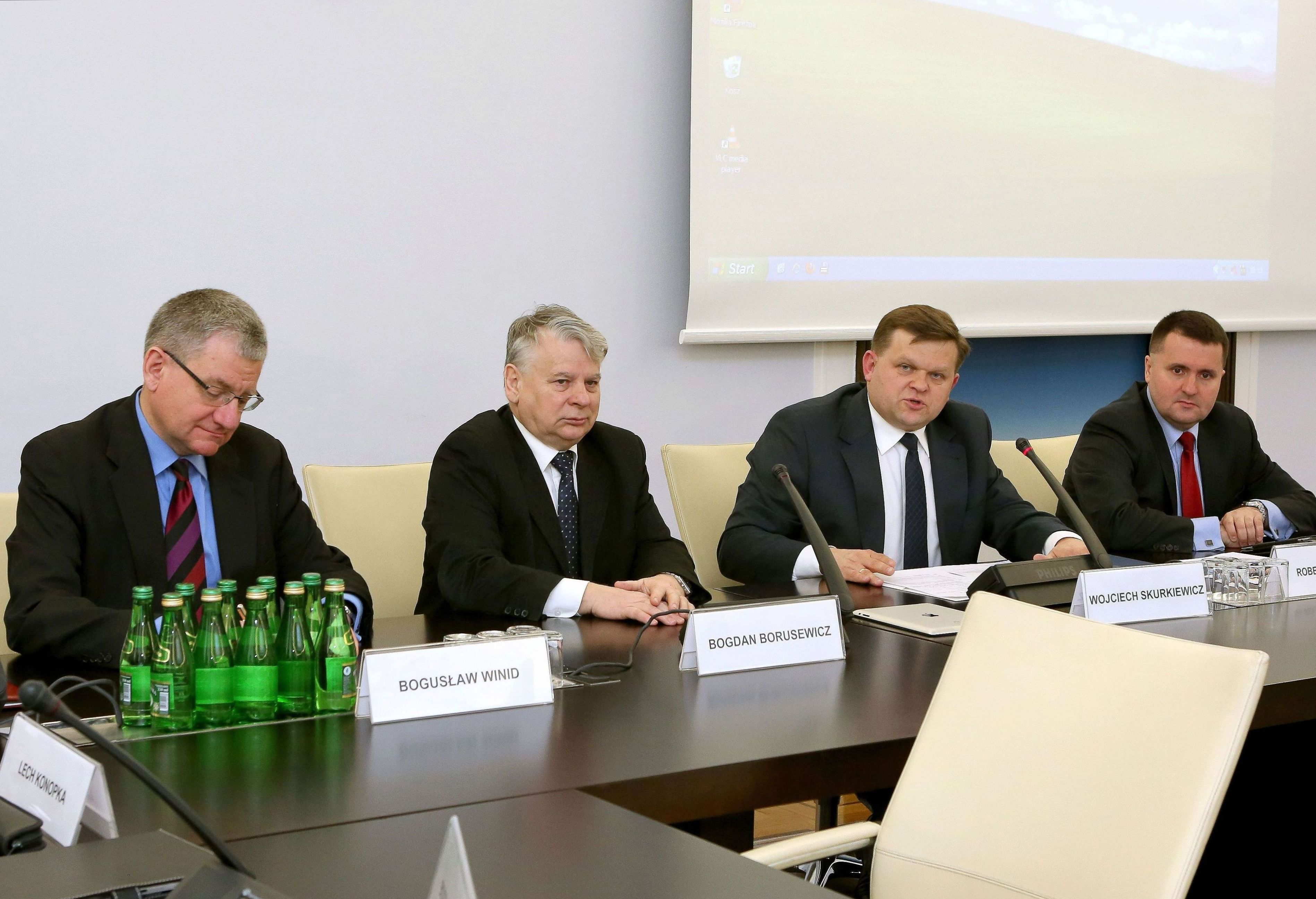 Conference "Poland in NATO: 15 years on" in the Polish Senate